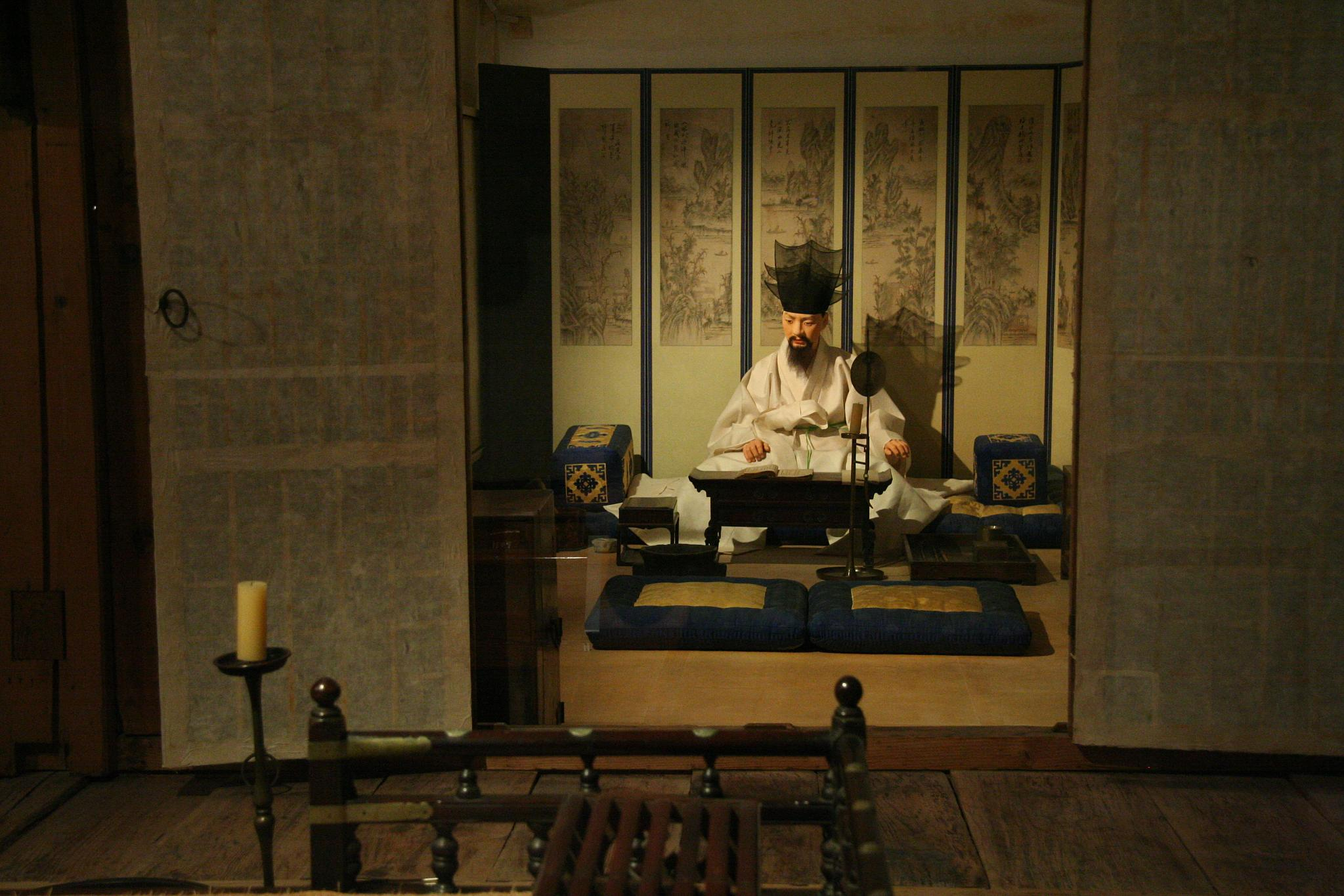 Display of a Korean traditional room of yangban, nobility of the Joseon Dynasty at National Folk Museum of Korea, Seoul, South Korea.